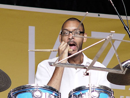 Jason Marsalis in Aarhus Denmark